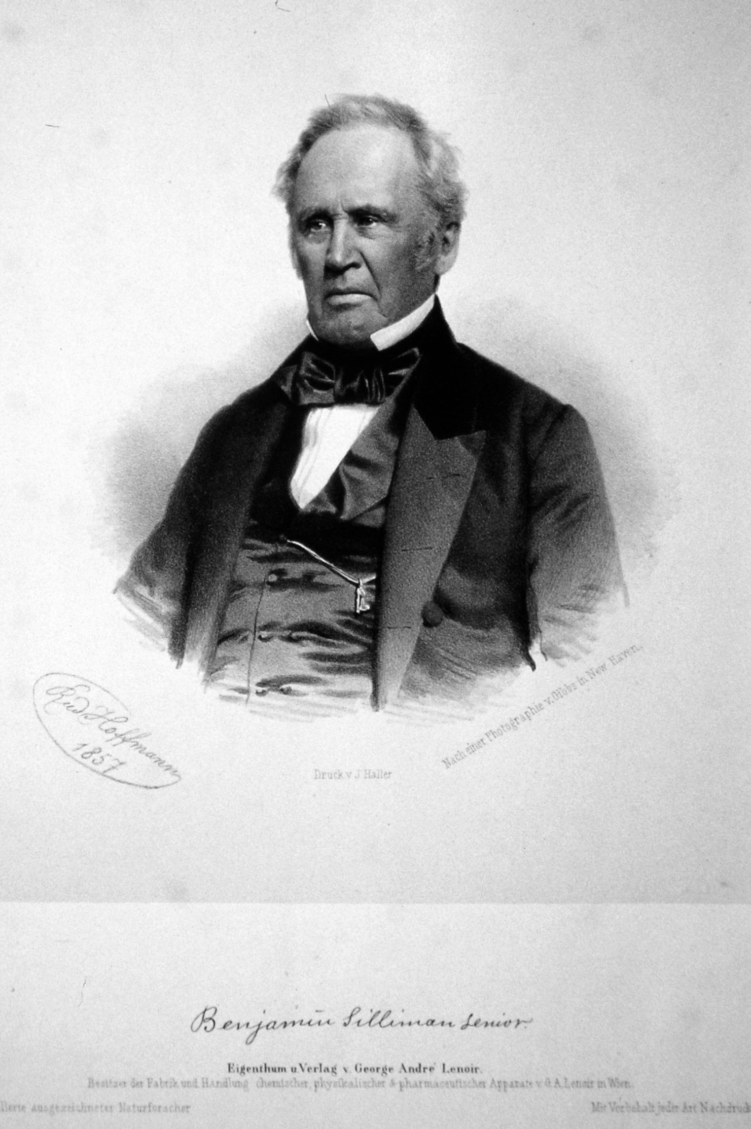 Benjamin Silliman (1779-1864), natural scientist, Lithography by Rudolf Hoffmann (1857), after a photograph by Gibbs (New Haven). From Gallerie ausgezeichneter Naturforscher.